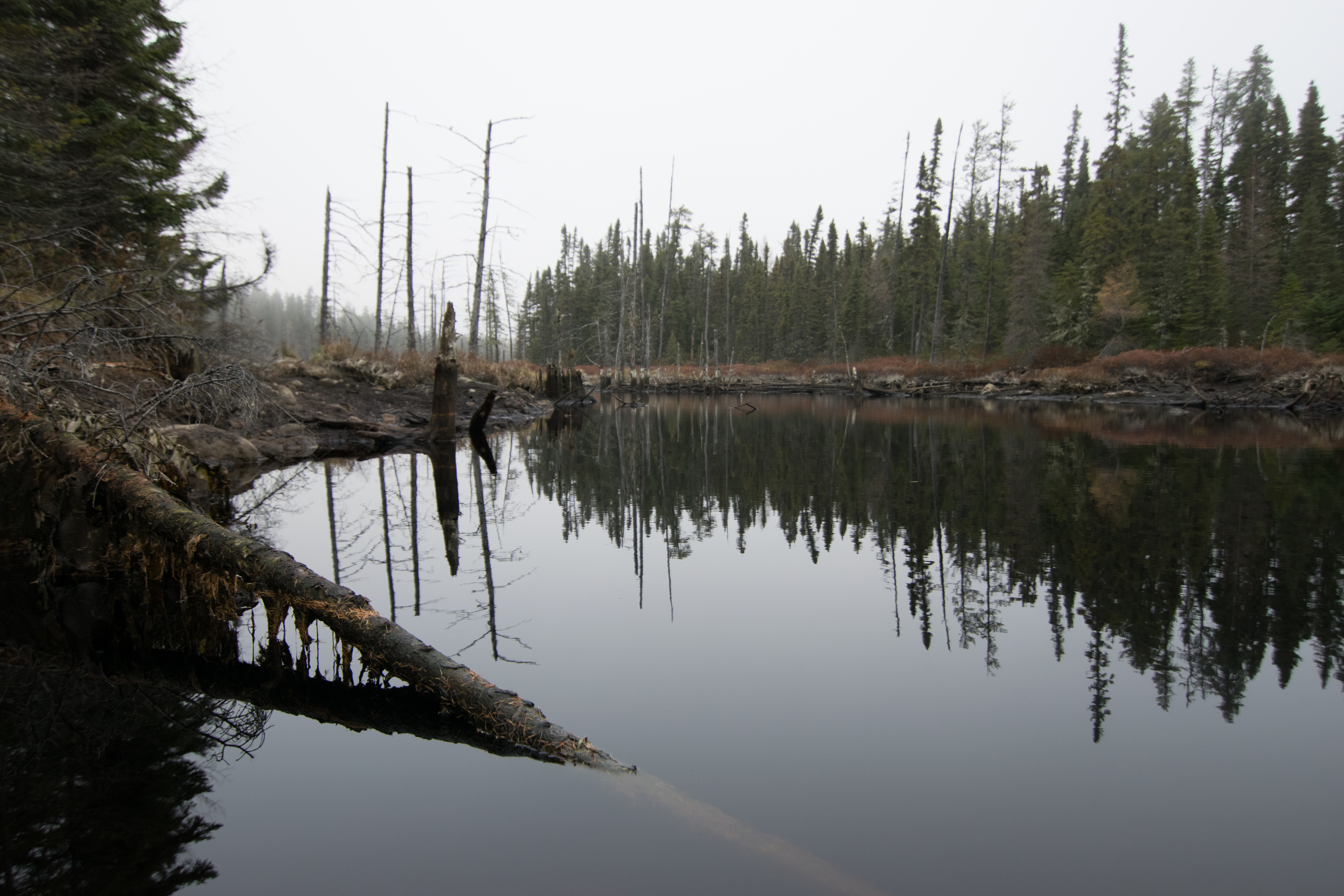 A pond in the Ashuapmushuan Wildlife Reserve, Quebec, Canada.